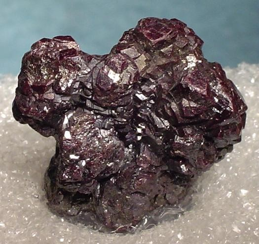 Pyrargyrite Locality: Zacatecas, Mexico (Locality at ) Size: 2.0 x 1.7 x 1.2 cm. A very aesthetic cluster of lustrous, intergrown, ruby-red pyrargyrite crystals from the famous mines of Zacatecas, Mexico. This CLASSIC and really cute thumbnail is complete all-around and only has one broken crystal stalk on the back, which is out of sight. The microcrystals are really sharp and you can see why pyrargyrite is called "ruby silver." Older material from the Dick Jones Collection.